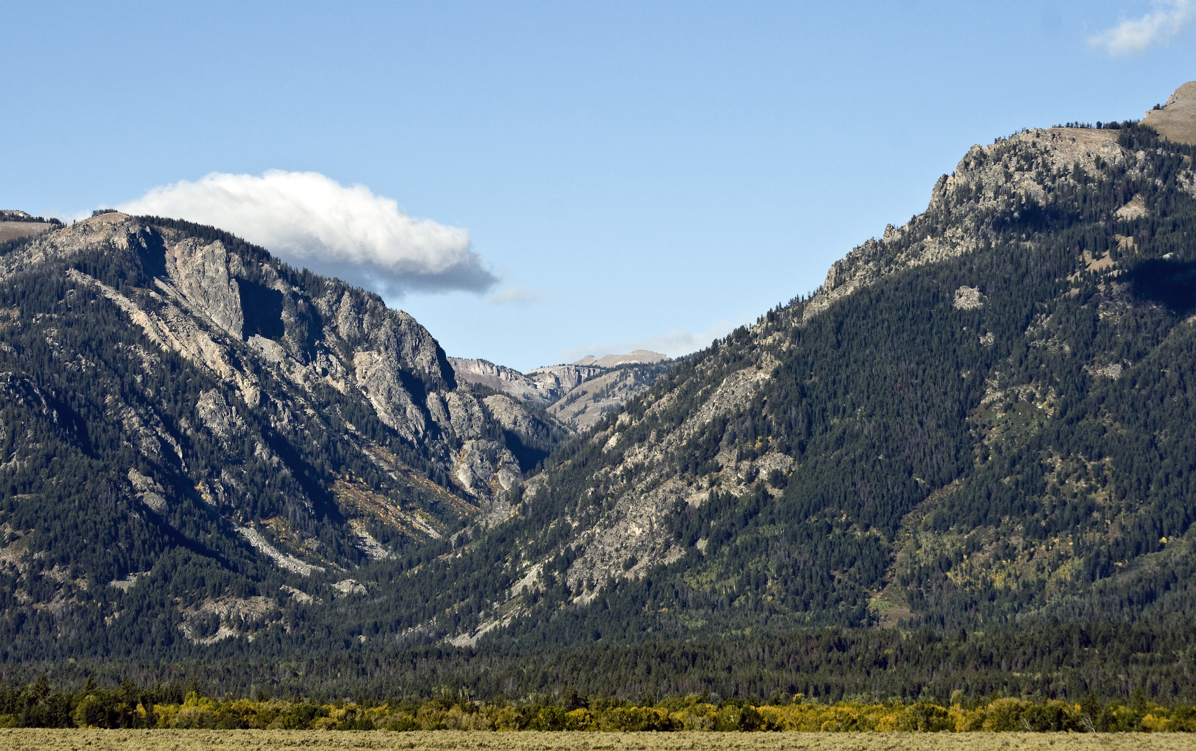 Granite Canyon, Grand Teton National Park, Wyoming, from the Albright View turnout